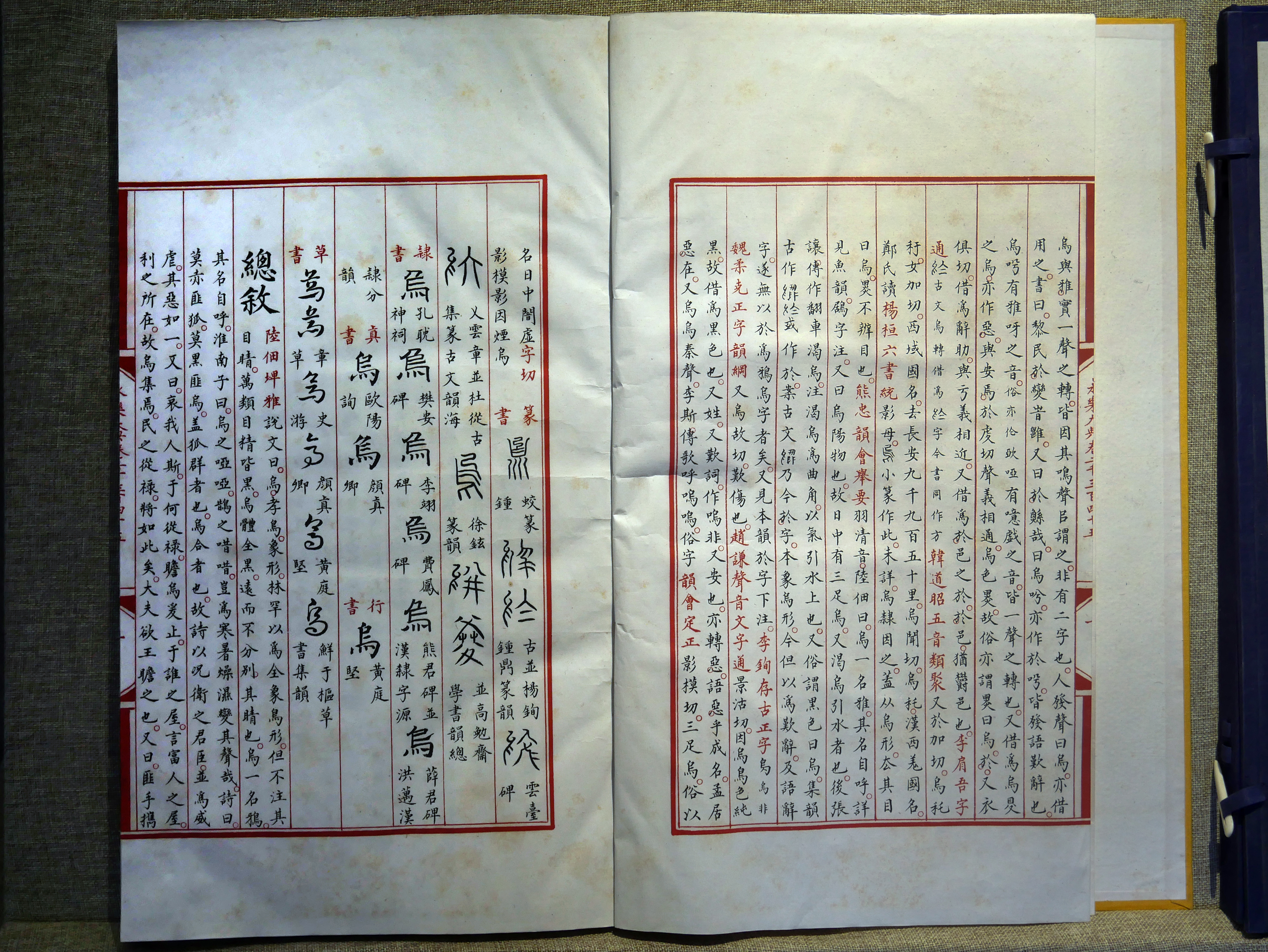 Pages of the Yongle Canon at the Changling tombs. The Yongle Canon, a great encyclopedia, was compiled in the Ming Dynasty. It contains 22877 volumes of articles and 60 volumes of table of contents all in 11095 books, with a total number of about 370 million words. The Canon contains over 8000 ancient books and records from the pre-Qin Dynasty to the early Ming Dynasty in China. It’s the largest encyclopedia in ancient China